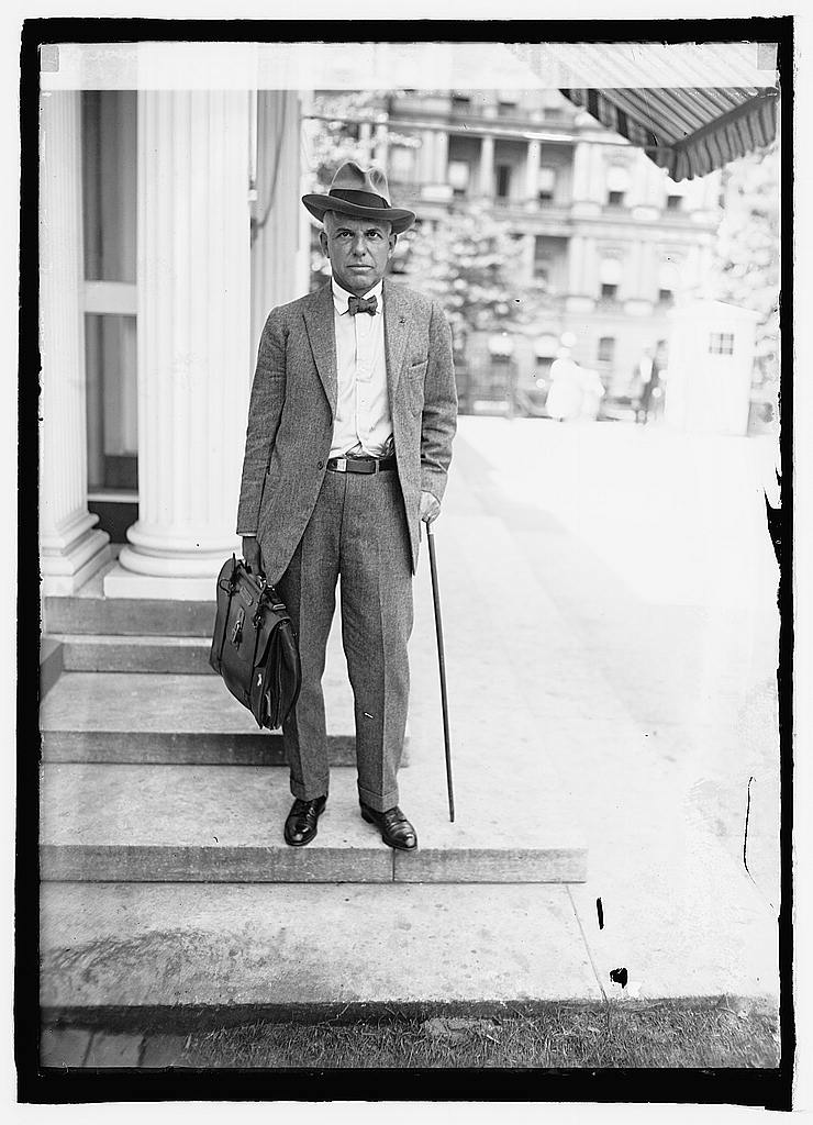 Library of Congress National Photo Company Collectiom